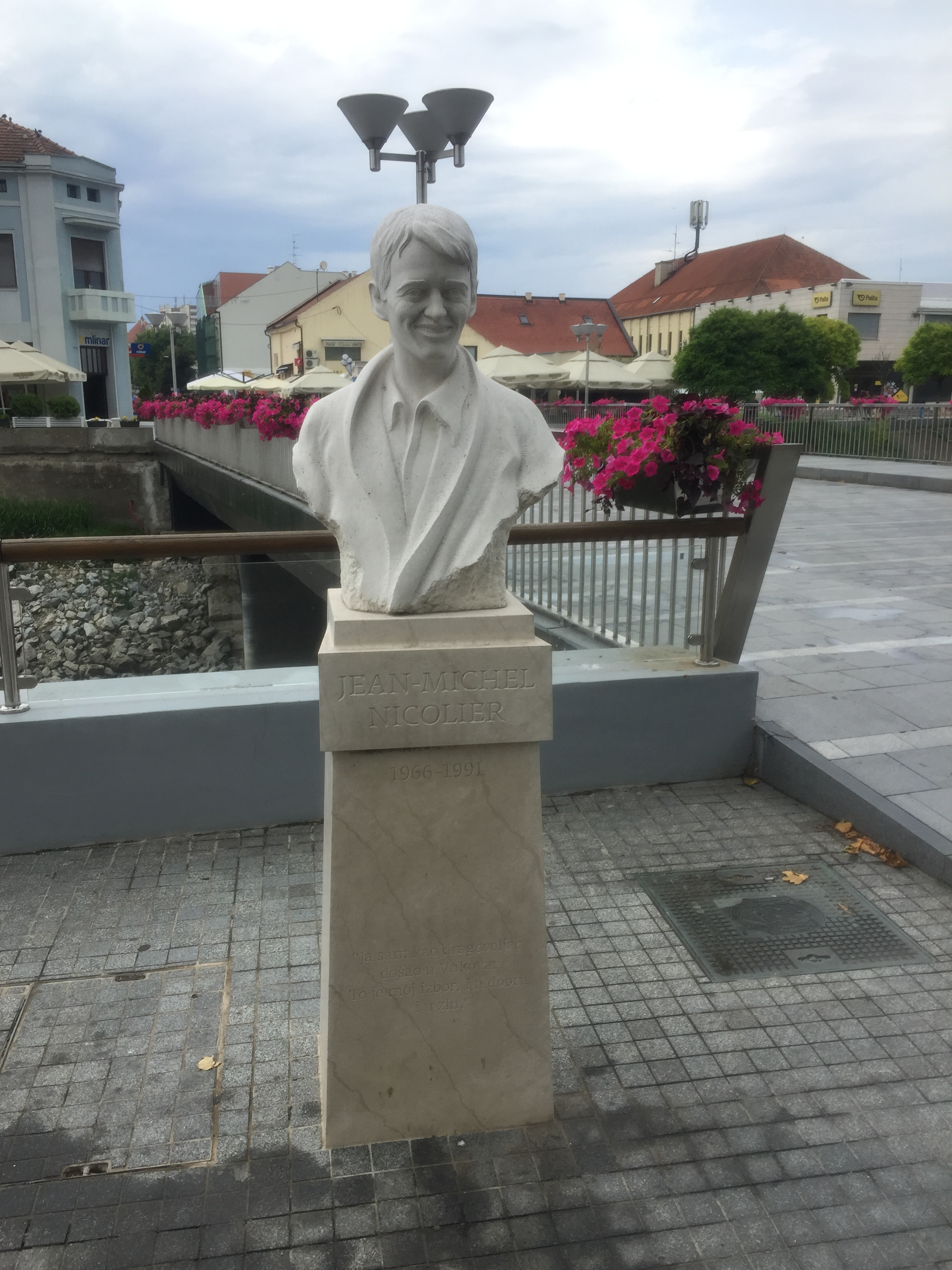 Bust of Jean-Michel Nicollier in Vukovar, 28 July 2019